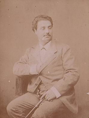 Antonio Cotogni